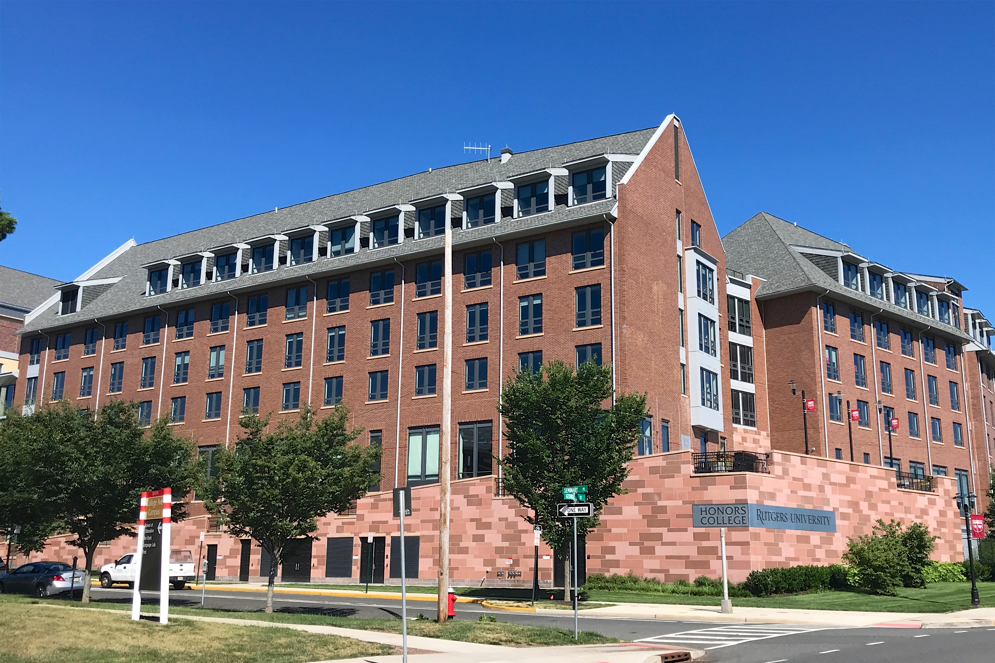 The Honors College building of Rutgers University in New Brunswick, New Jersey.